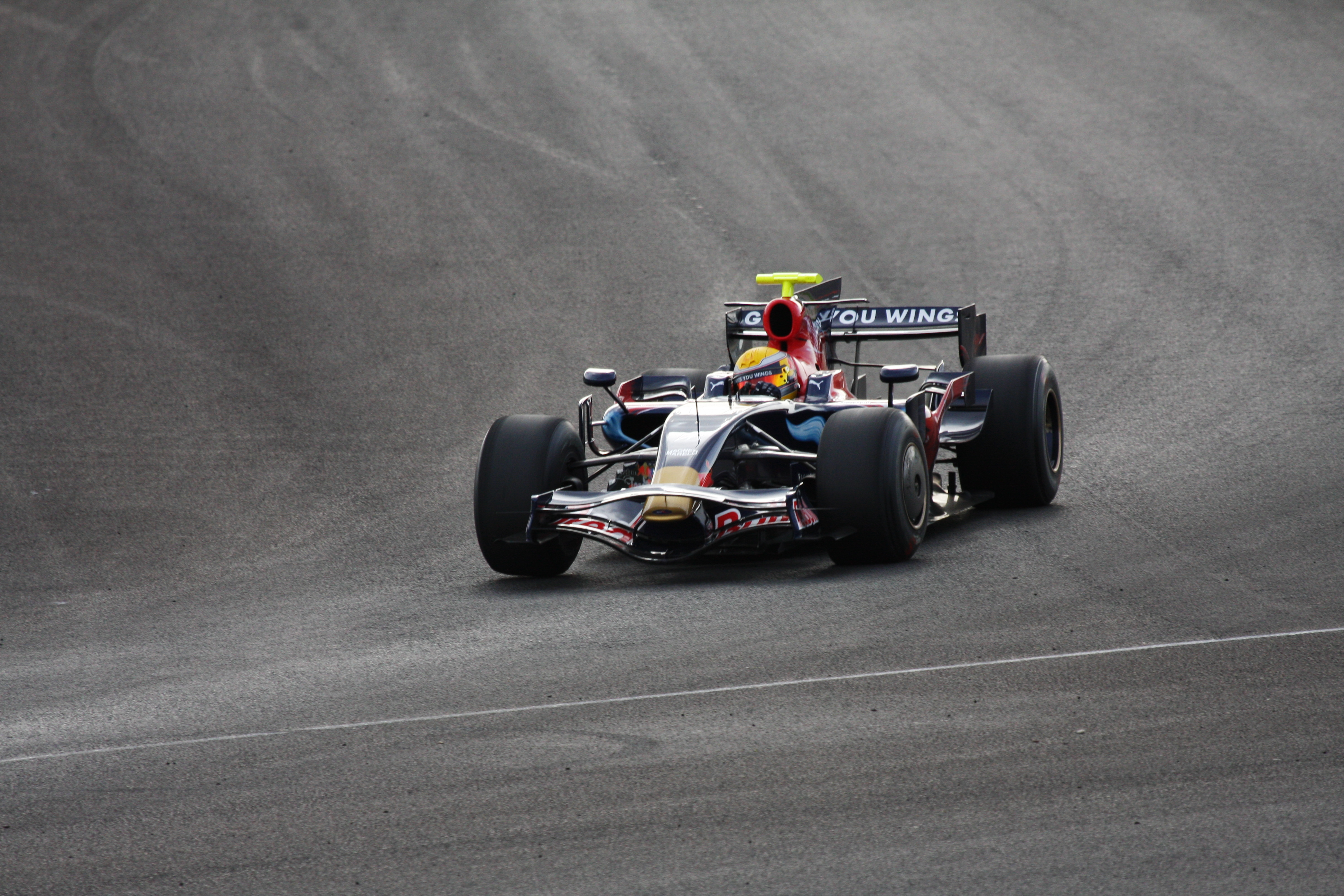 Sébastien Buemi in the Toro Rosso STR3, F1 testing session, Jerez 10-Feb-2009